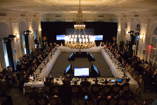 Broadband Commission for Sustainable Development Meeting, September 2017